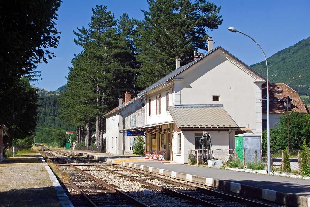 Lus-La-Croix-Haute french railway station (26-Drôme)